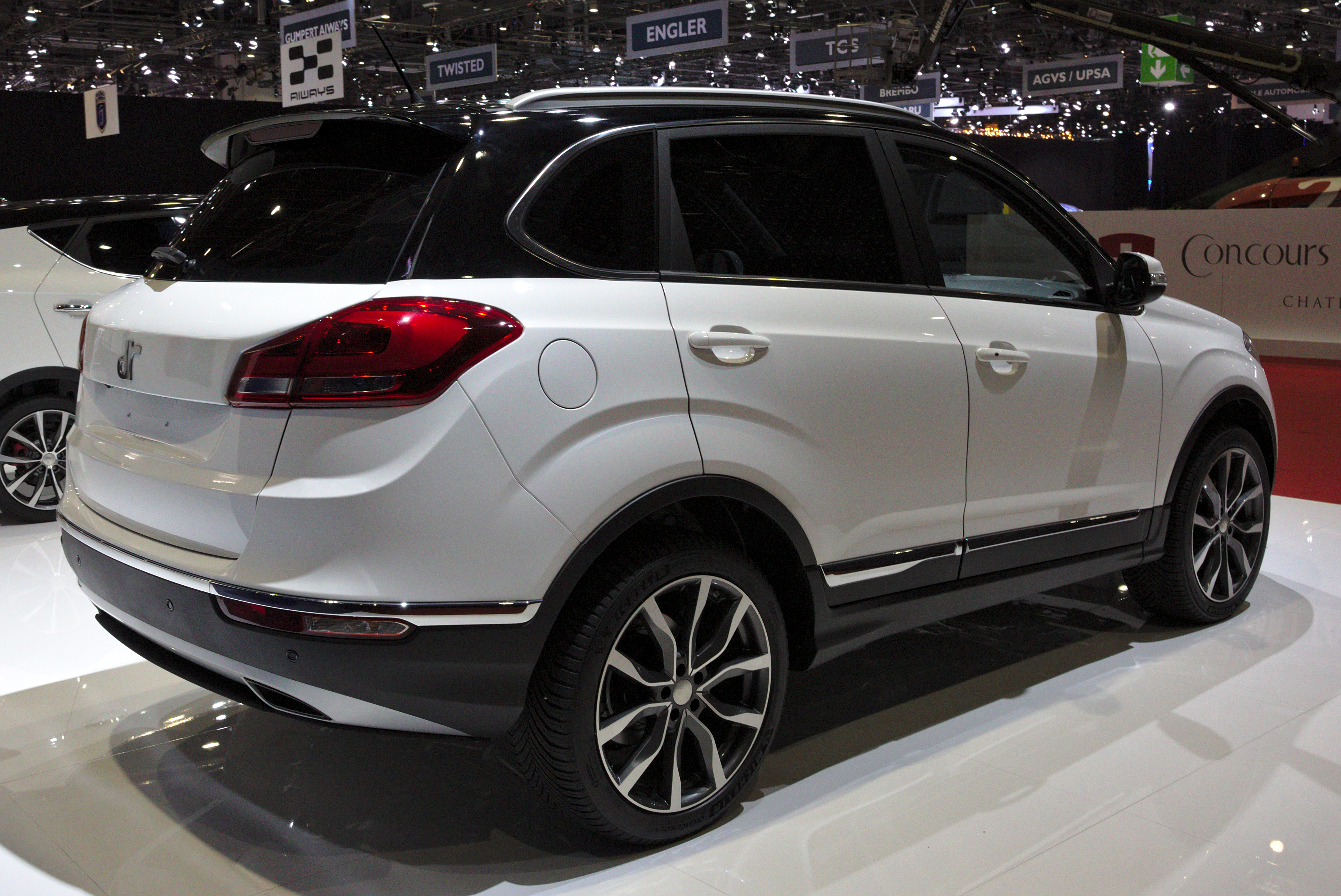 DR6 at Geneva Motor Show 2019